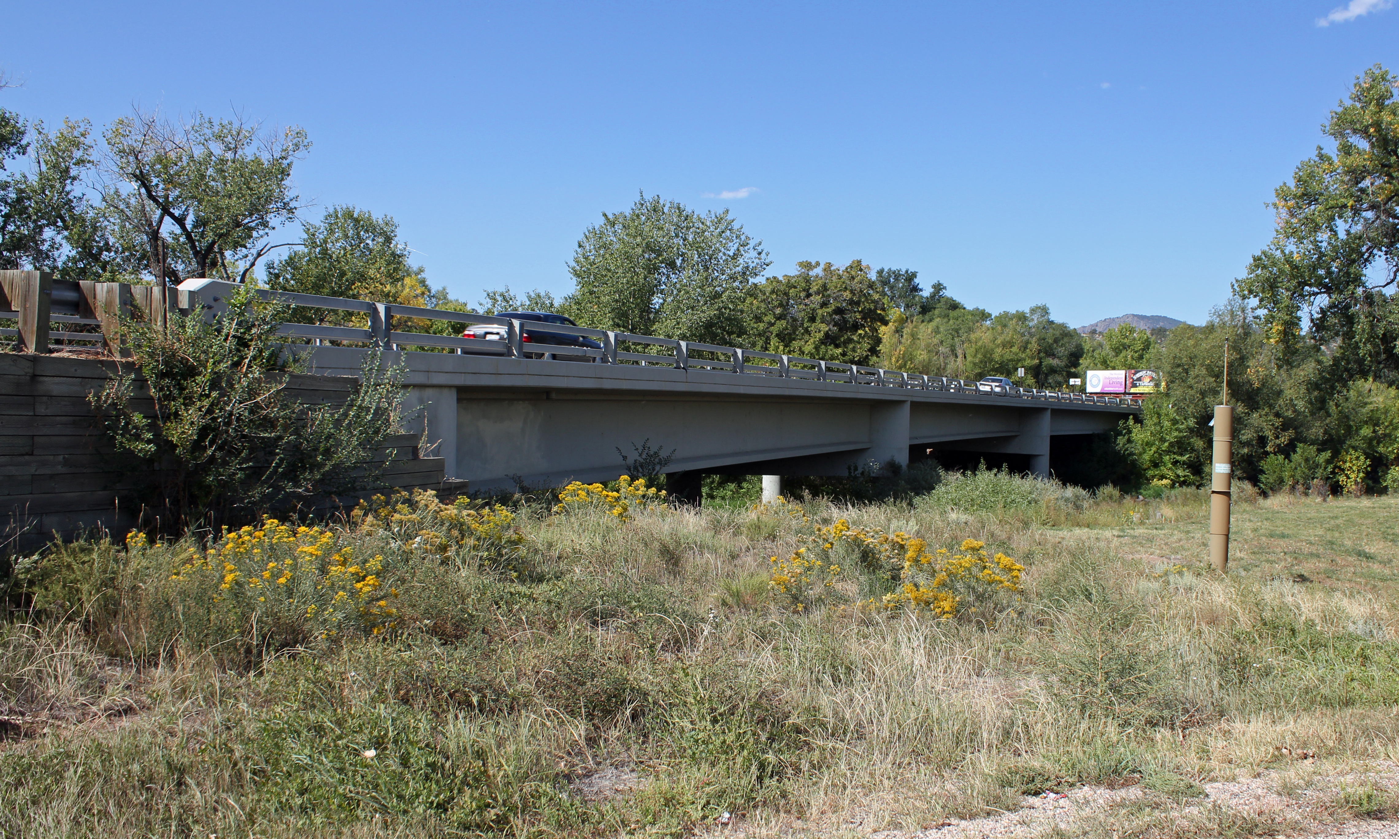 The Big Thompson River Bridge IV, located on U.S. Route 34 at milepost 86.04. The bridge is listed on the National Register of Historic Places.